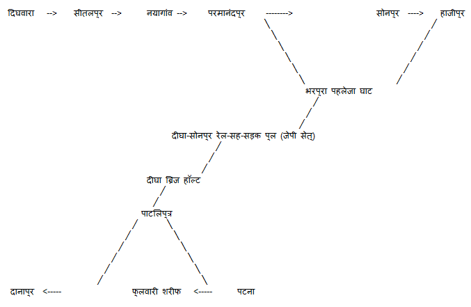 सोनपुर एवं दानापुर रेल मंडल के स्टेशन